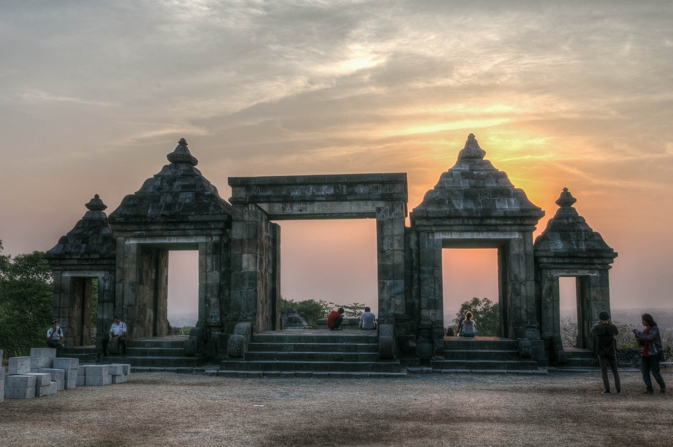 King Boko Palace, located in Yogyakarta, Indonesia.